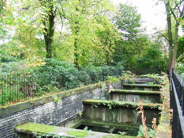 Botanic Gardens railway station Original description: Botanic Gardens station The station was closed in 1939, but the platforms and trackbed are remarkably intact. This pictures shows one of a pair of ventilation shafts above the station. See also NS5667 : Botanic Gardens station.